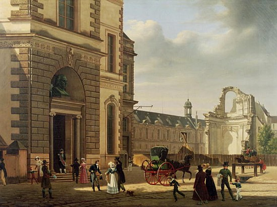 XIR142478 The Entrance to the Musee de Louvre and St. Louis Church, 1822 (oil on canvas) by Bouhot, Etienne (1780-1862); Musee de la Ville de Paris, Musee Carnavalet, Paris, France; Giraudon; French, out of copyright